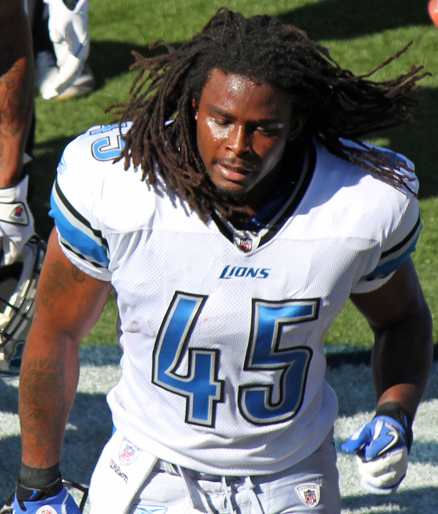 Eldra Buckley, a National Football League player.